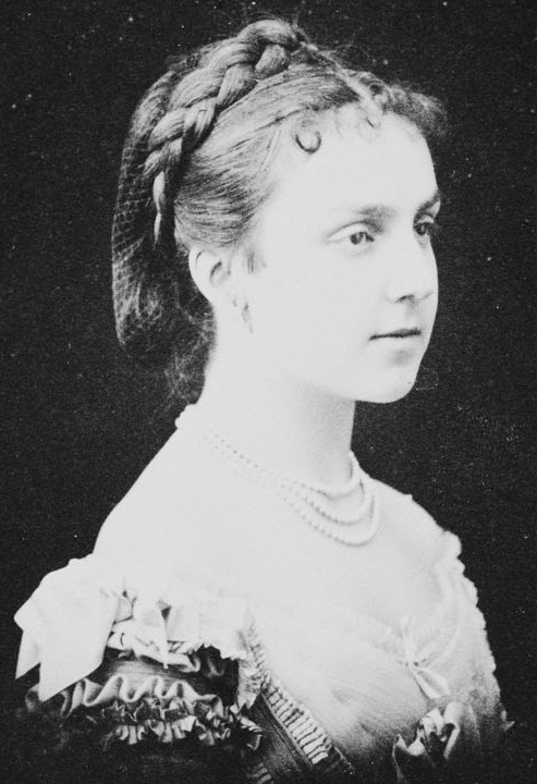 Princess Mercedes, future Queen of Spain, died 1878